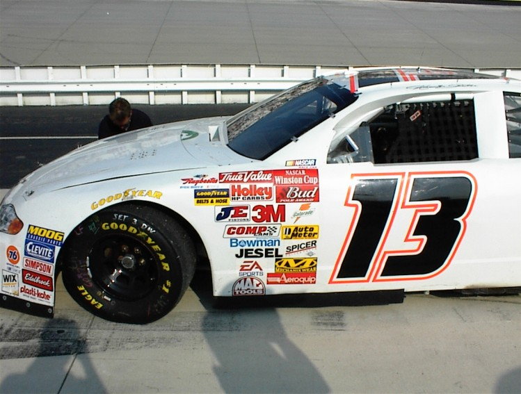 Hermie Sadler's No. 13 car on pit road before the 2001 MBNA Cal Ripken, Jr. 400 at Dover Downs International Speedway.